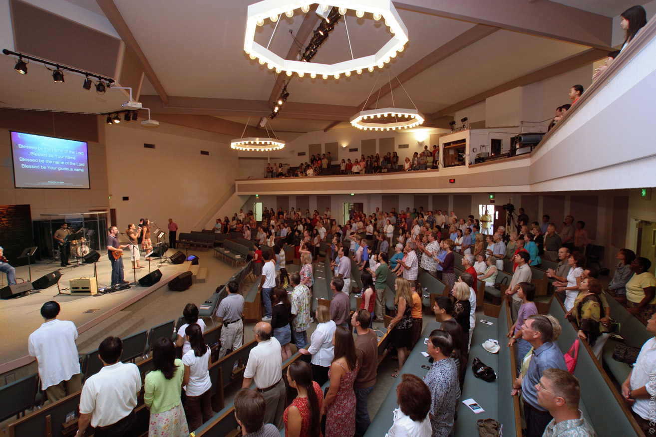 Bridges Community Church Fremont Ca, worship service.